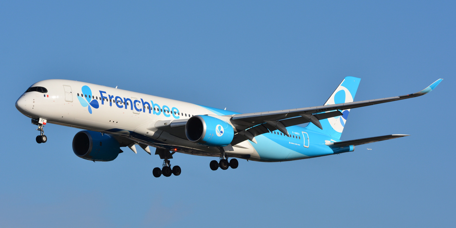 Paris-Orly Airport